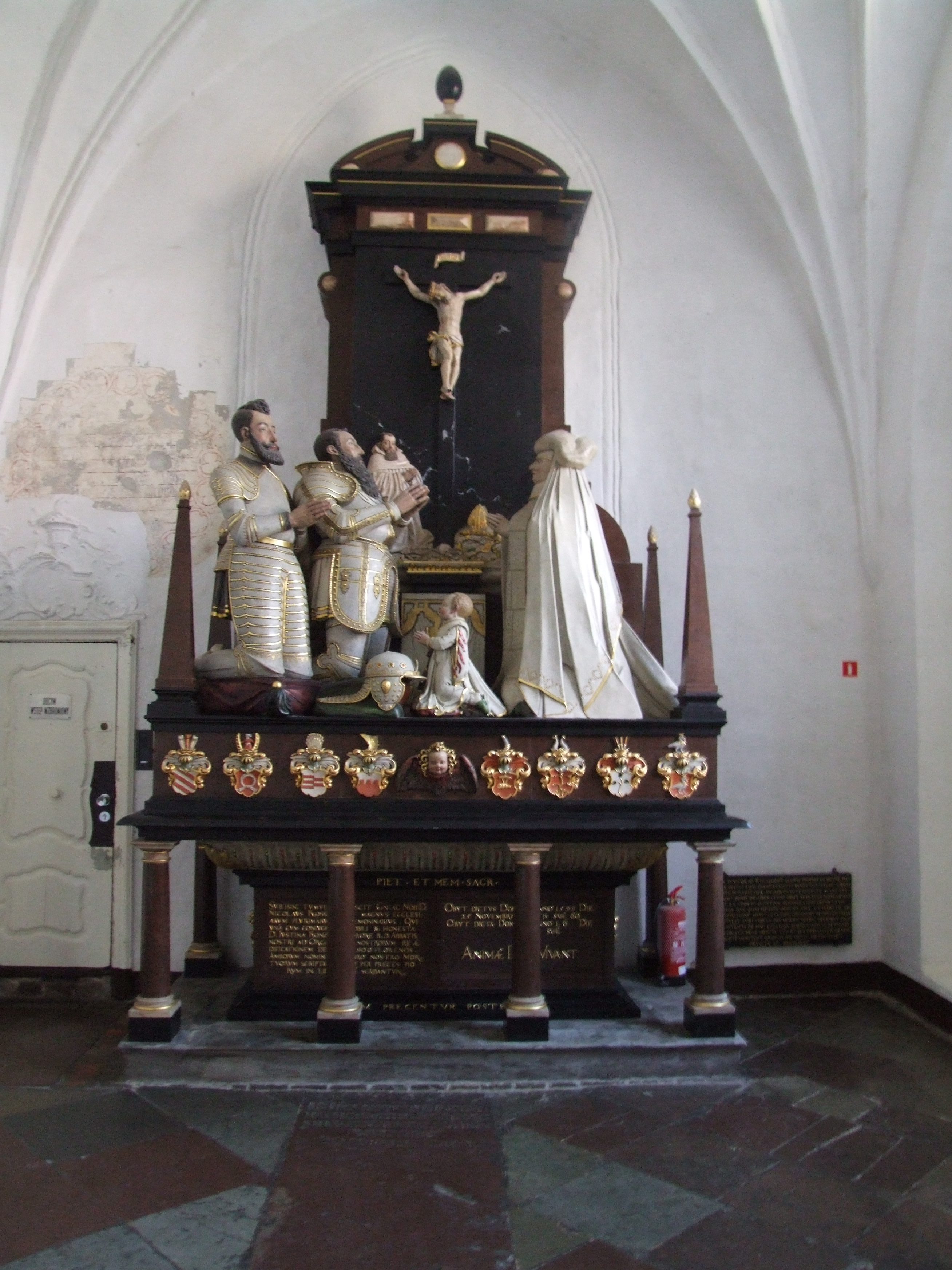 Kos Family Tomb in Oliwa Cathedral by Willem van den Blocke (1620). It depicts Mikołaj Kos, his son Andrzej and opposite to them Mikołaj's wife Justyna z Konarskich and their son Jan.